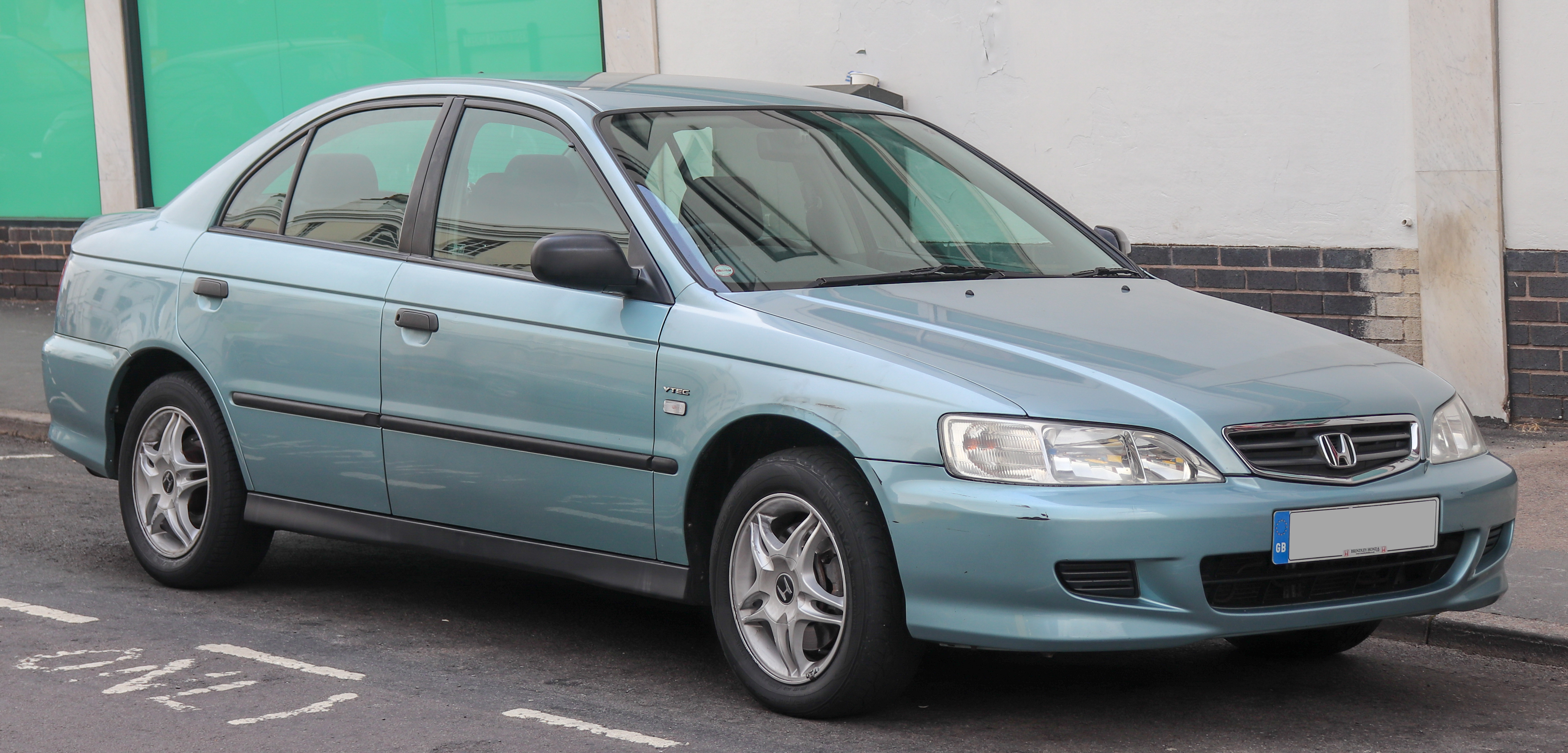 2002 Honda Accord VTEC S 1.9 Front Taken in Leamington Spa